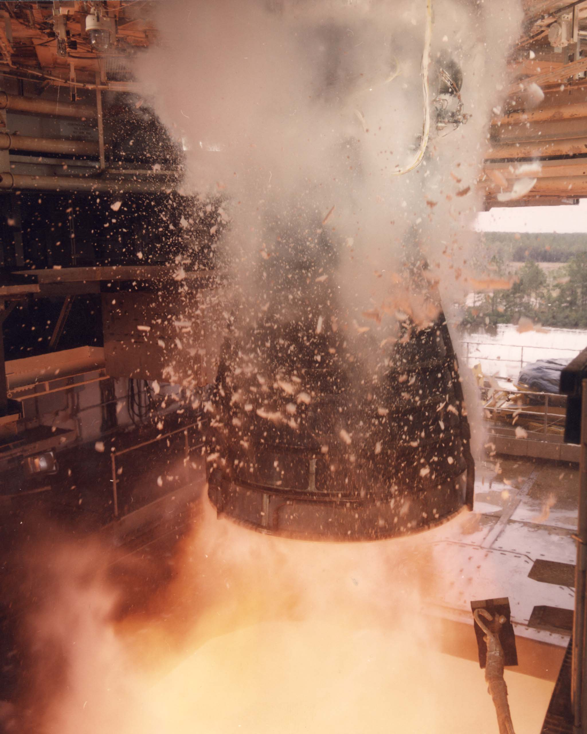 A close-up view of a Space Shuttle Main Engine during a test at the John C. Stennis Space Center shows how the engine is gimballed, or rotated, to evaluate the performance of its components under simulated flight conditions.